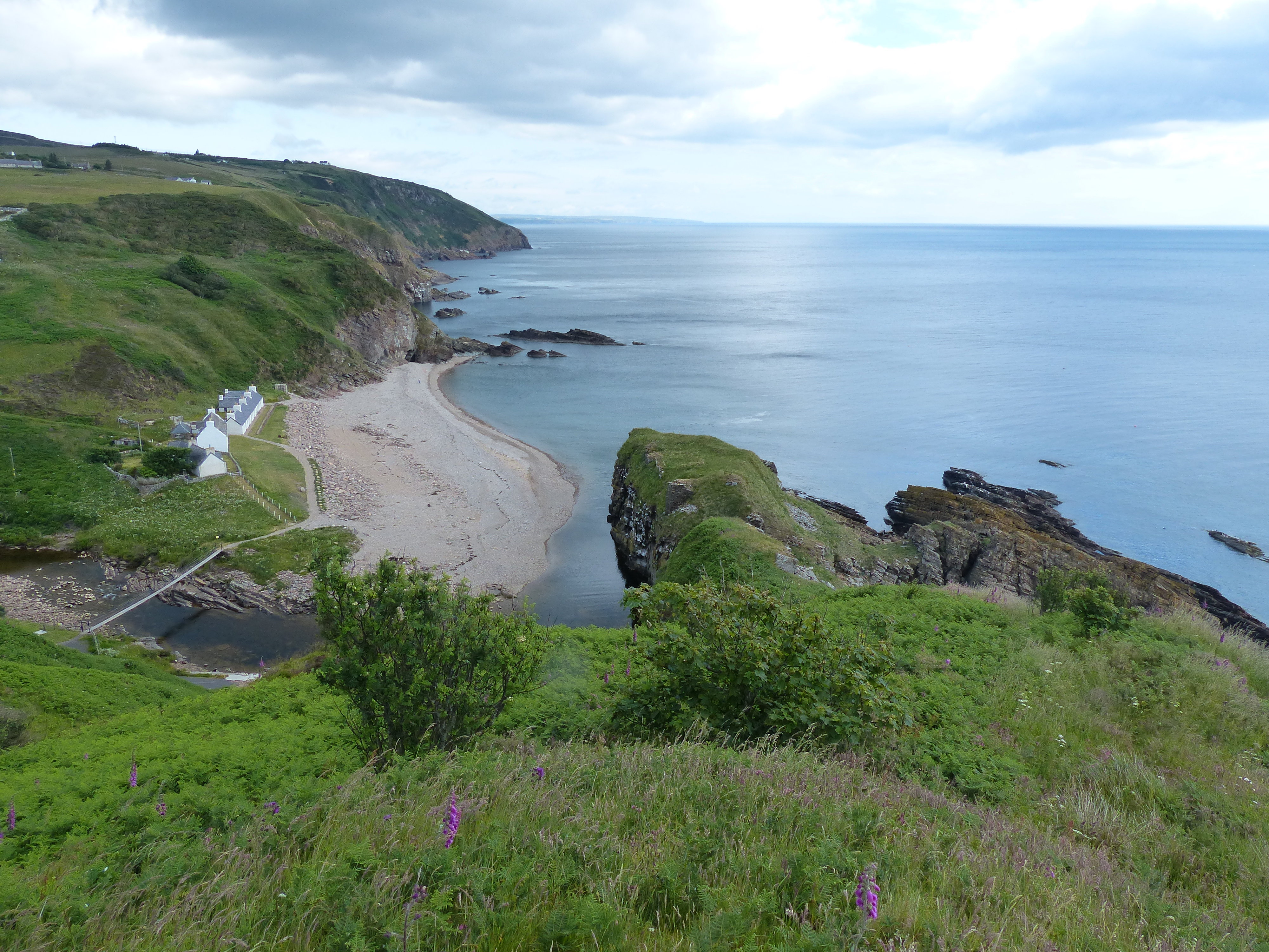 Shore Cottages Berriedale taken from the headland to the from south of the bay